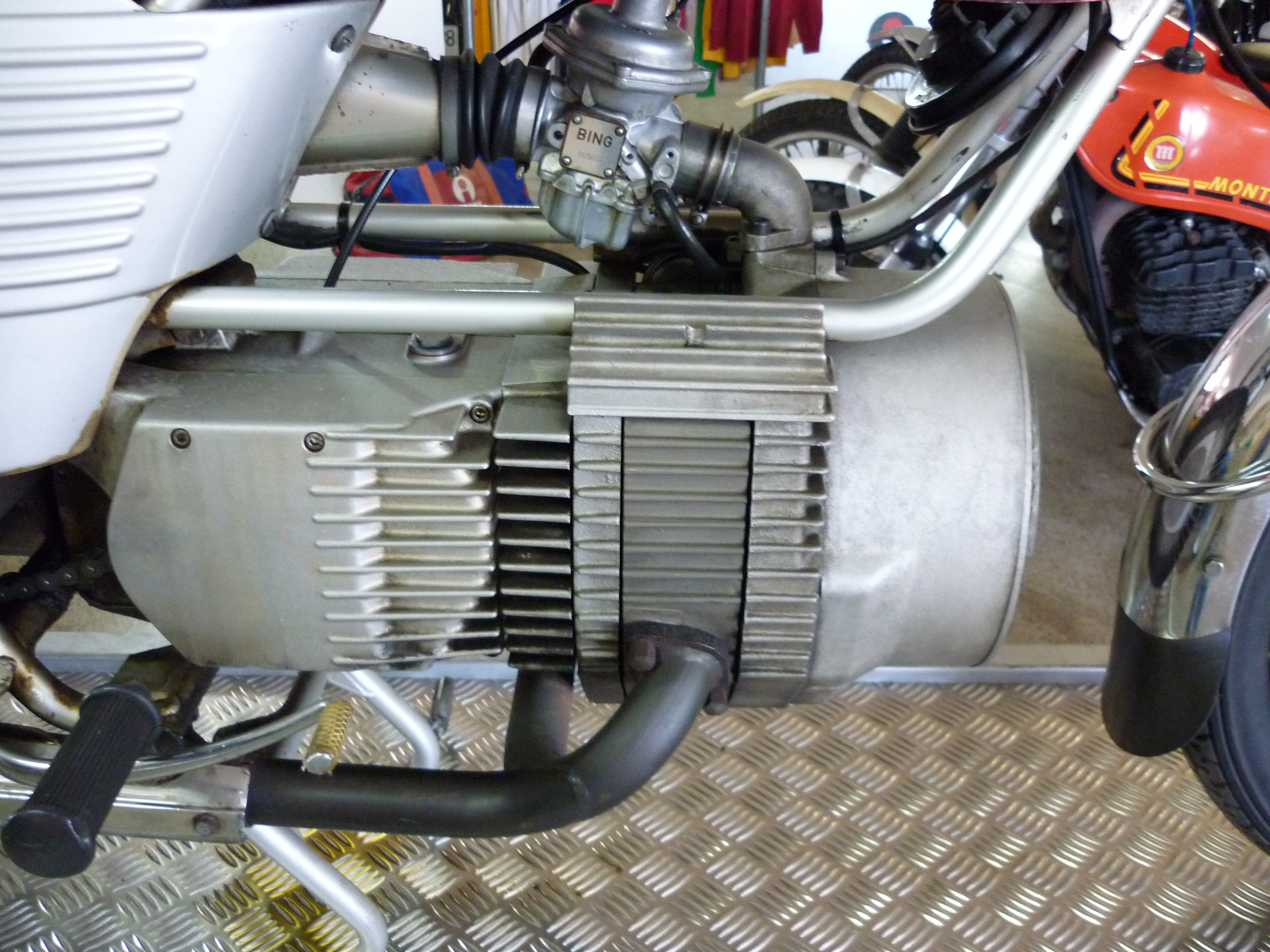 DKW with a Wankel 2000cc rotary engine (1974).Isern Motorcycle Museum, Mollet del Vallès (Catalonia).